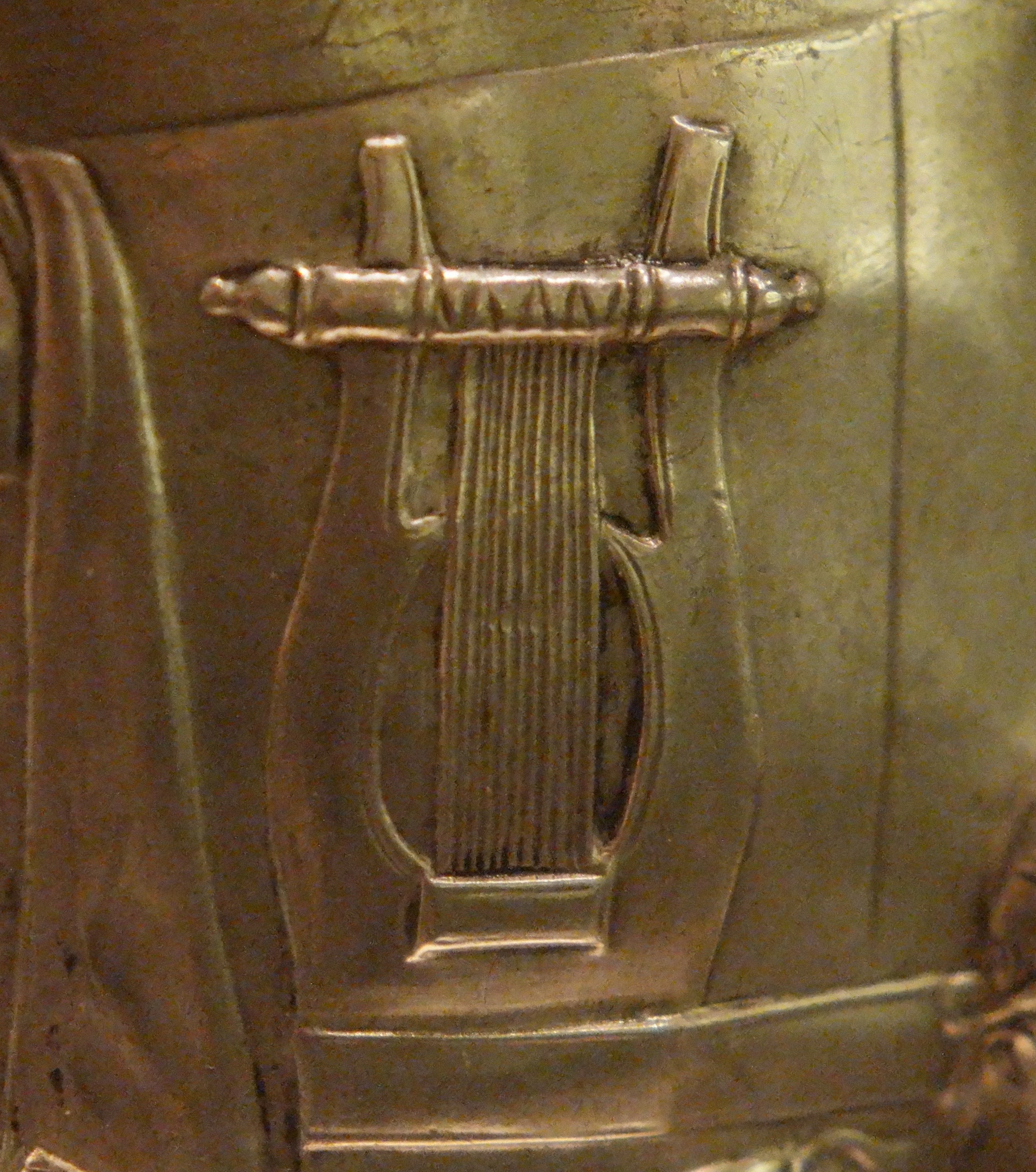 See Warren Cup. British Museum, GR 1999,0426.1